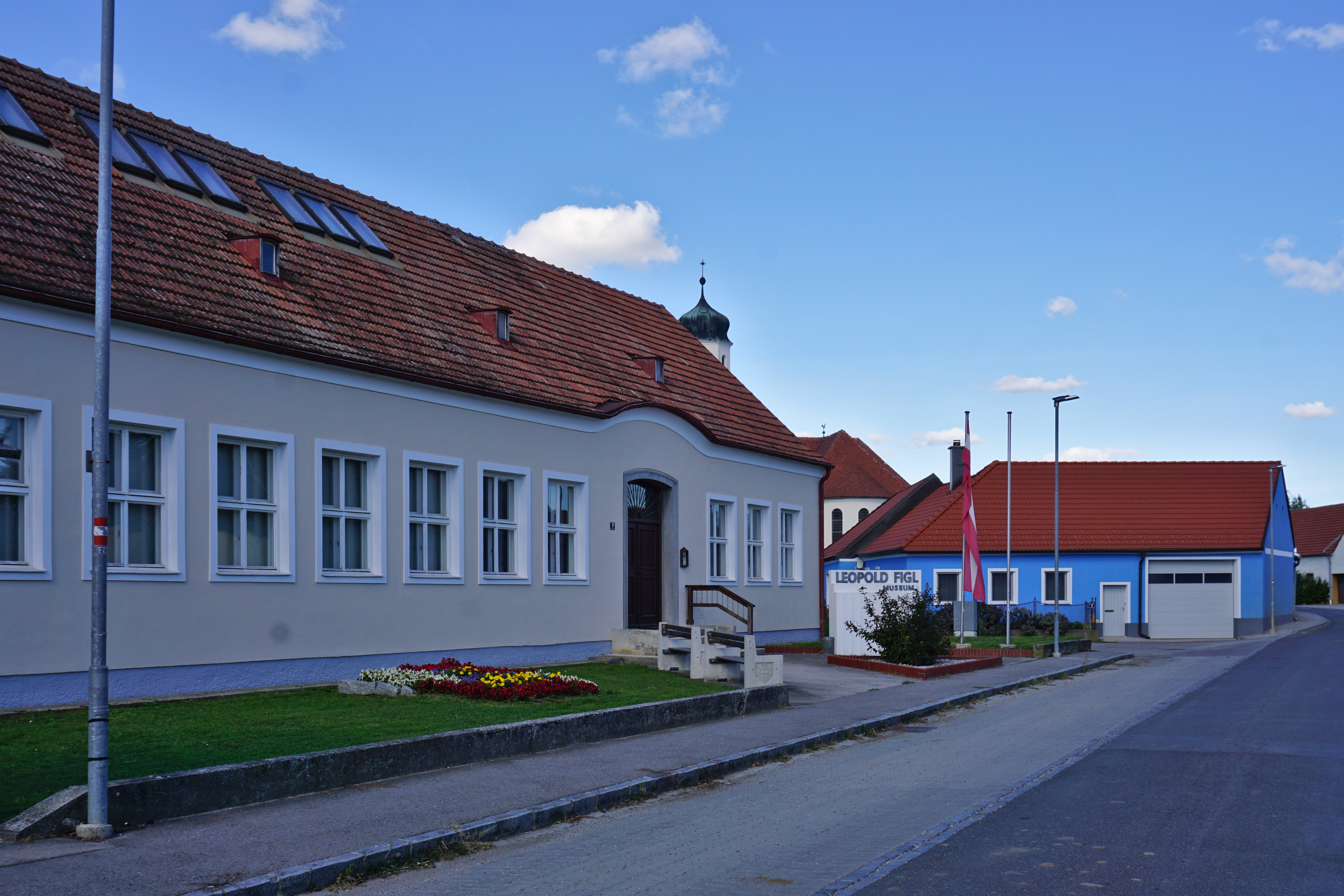 Leopold Figl Museum